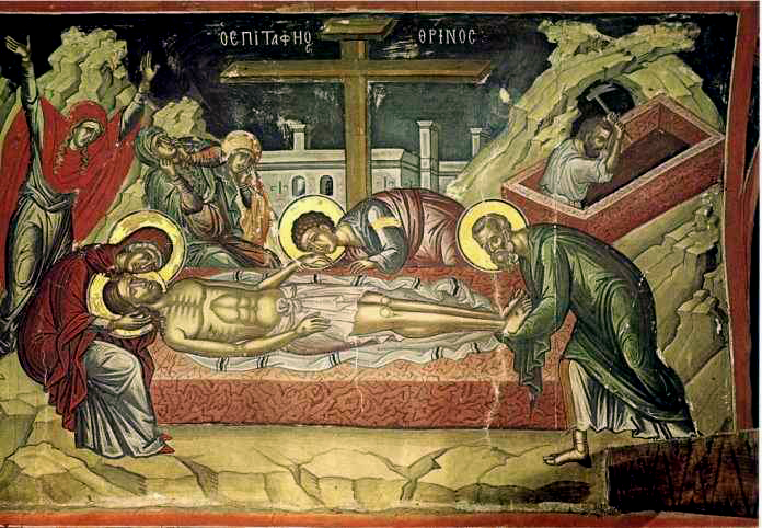 The Burial Lamentations, Holy Monastery of Stavronikita, Mount Athos.